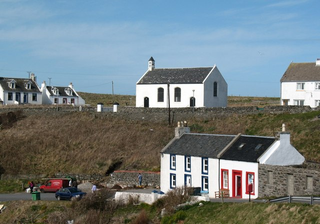 Church and post office at Portnahaven The church was constructed in 1828 at the instigation of parliament in order to serve the growing population at this end of the Rinns peninsula.